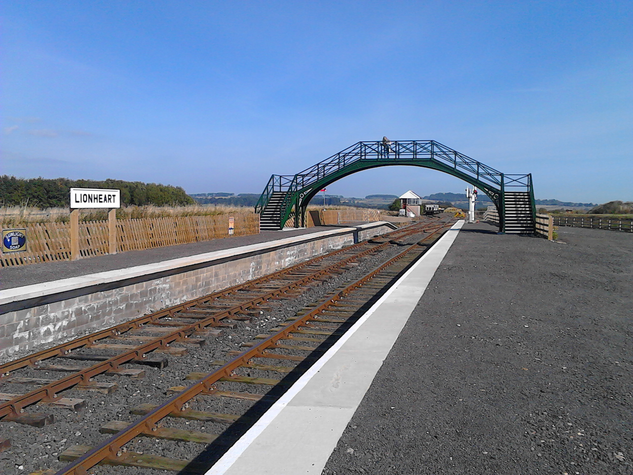 View NE, from platform 1 of the Aln Valley Railway's Lionheart Station along line towards Alnmouth. At this time the line only extended approximately 200m beyond the end of the platform to the headshunt. The footbridge is in the centre of the image while Lionheart Signal Box can be seen in the background.